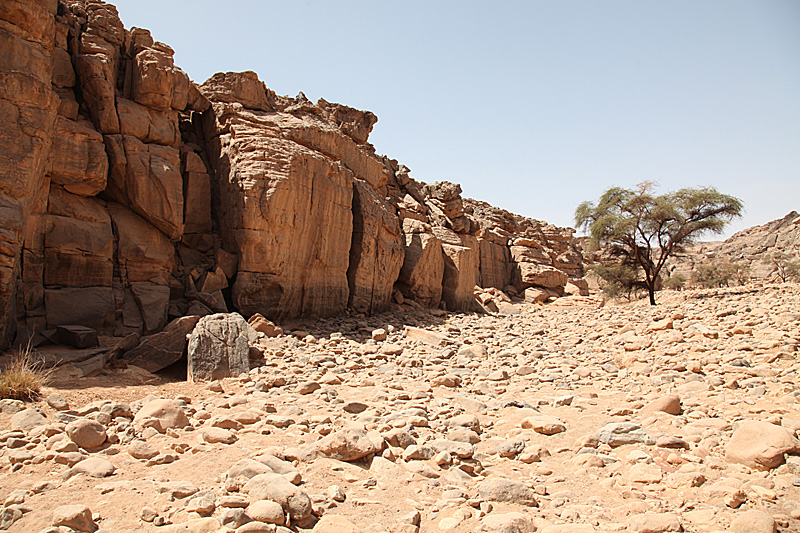 Landscape of Karkur Talh, Western Desert, Egypt & Sudan